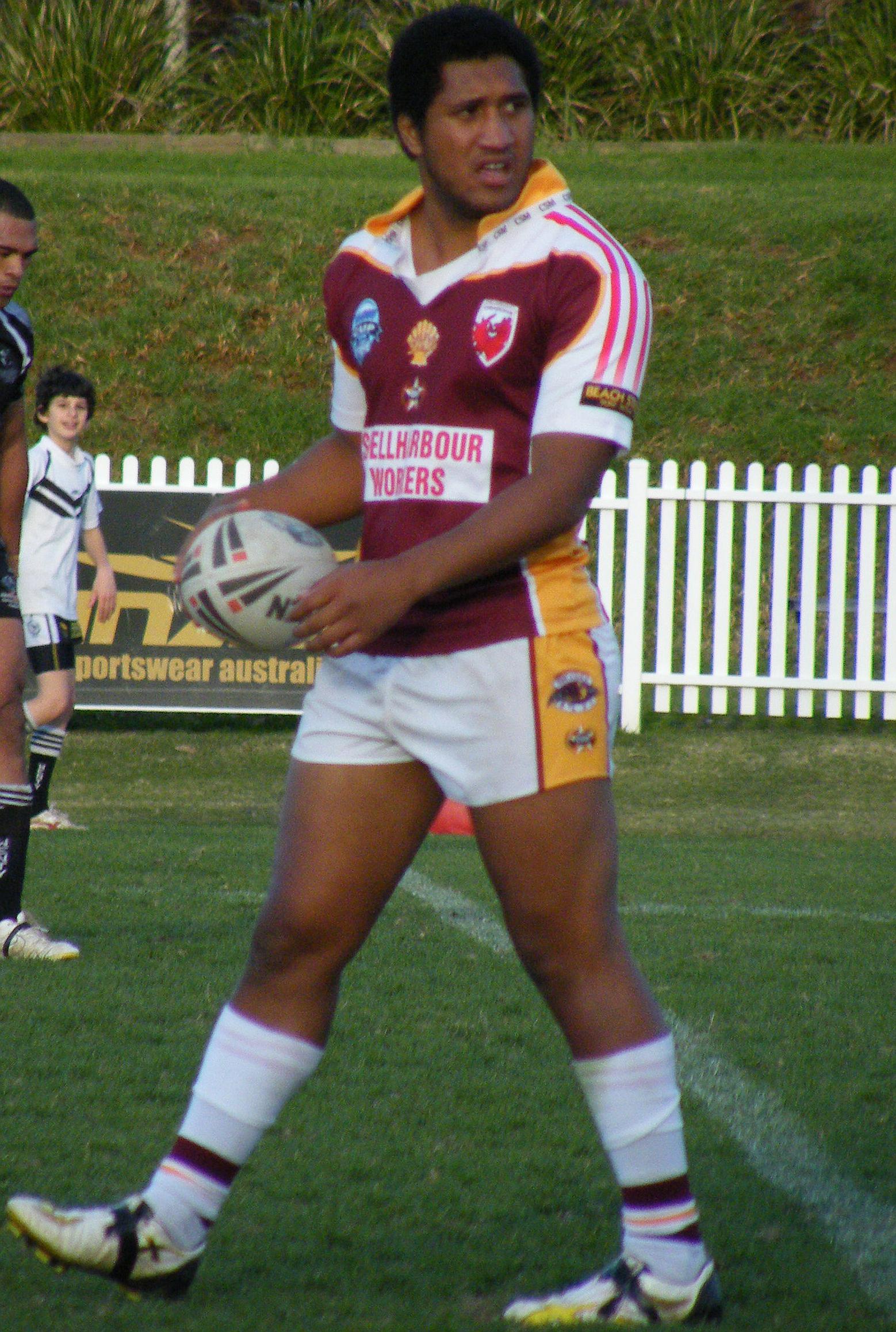 Kalifa Fai Failoa of the Shellharbour Dragons RLFC